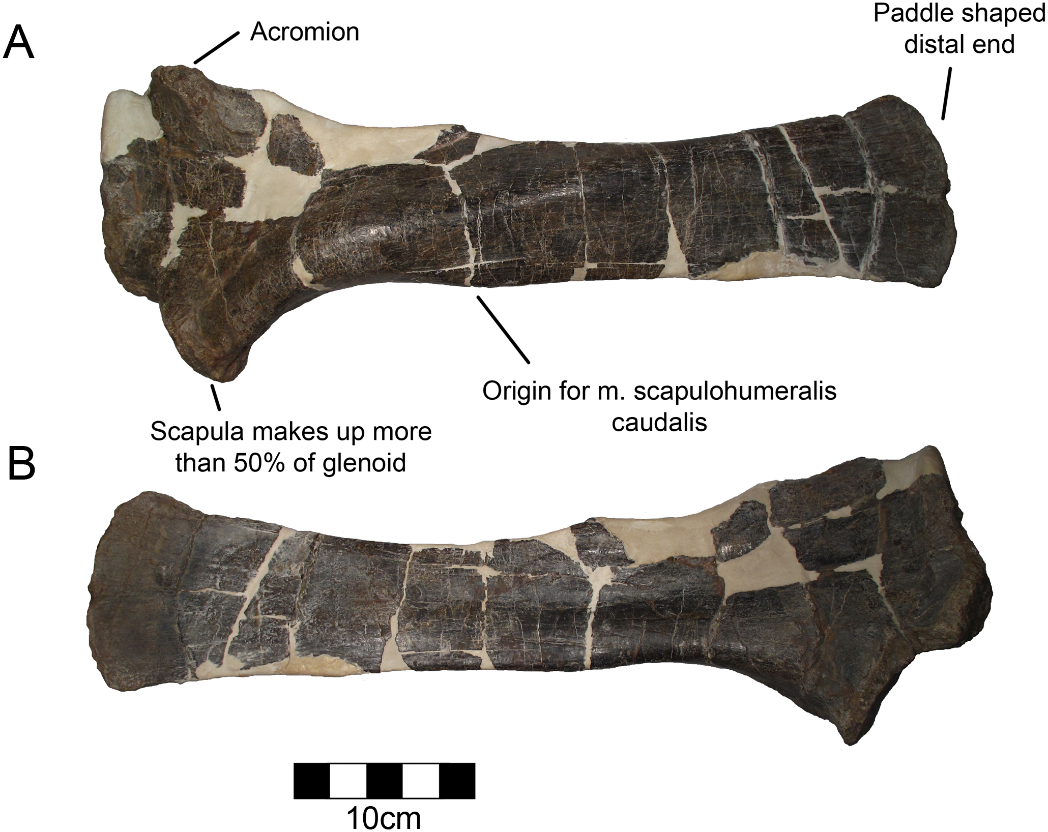 Fig 8. CPC 274 Left Scapula - The complete left scapula of CPC 274 in (A) lateral and (B) medial views. Scale = 10 cm.